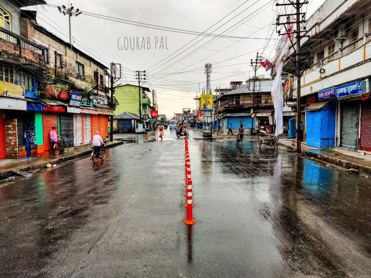 It's a view of Dinahat town from Main Road.